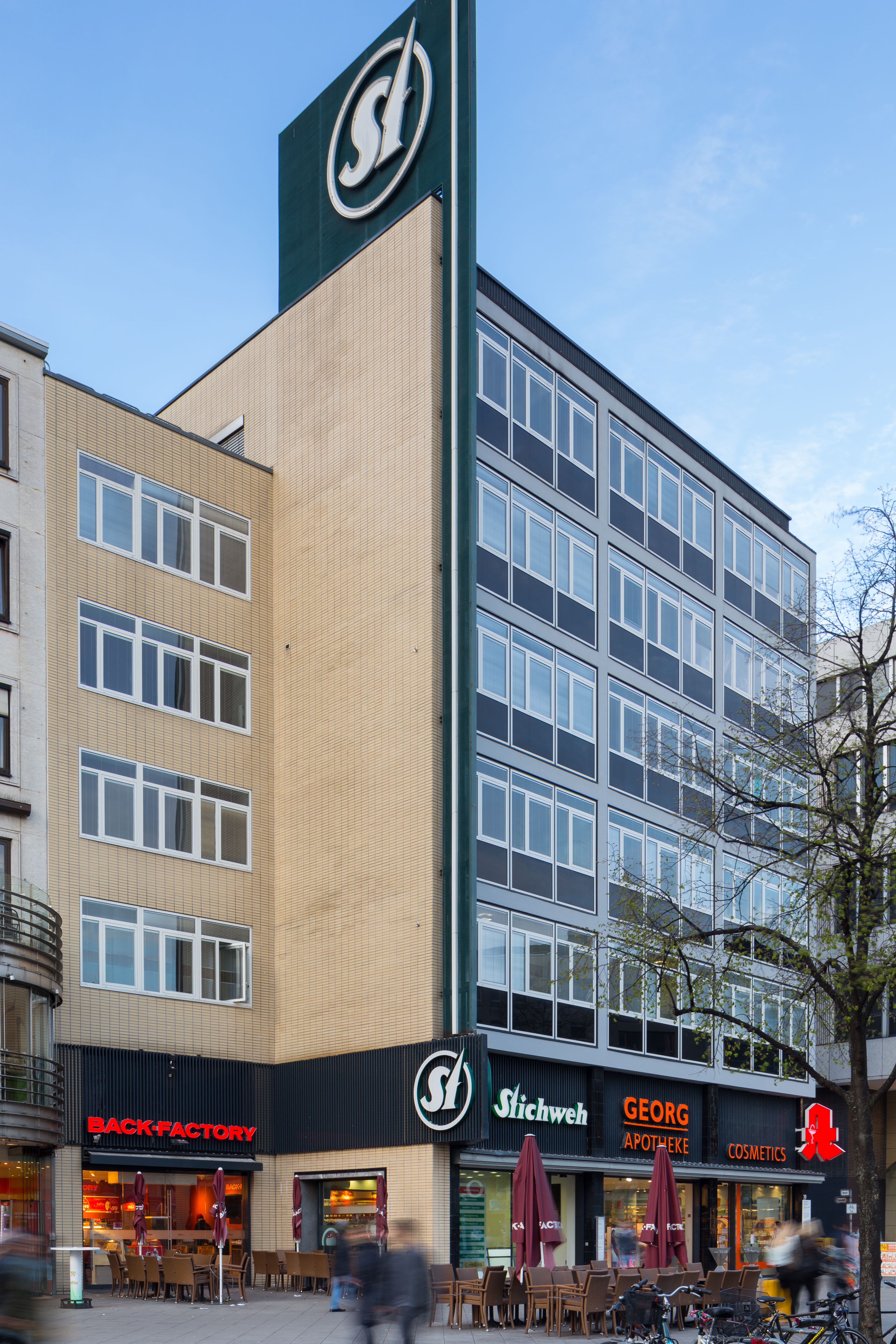 Office building of Stichweh laundry service located at Georgsstrasse in Mitte quarter of Hannover, Germany.